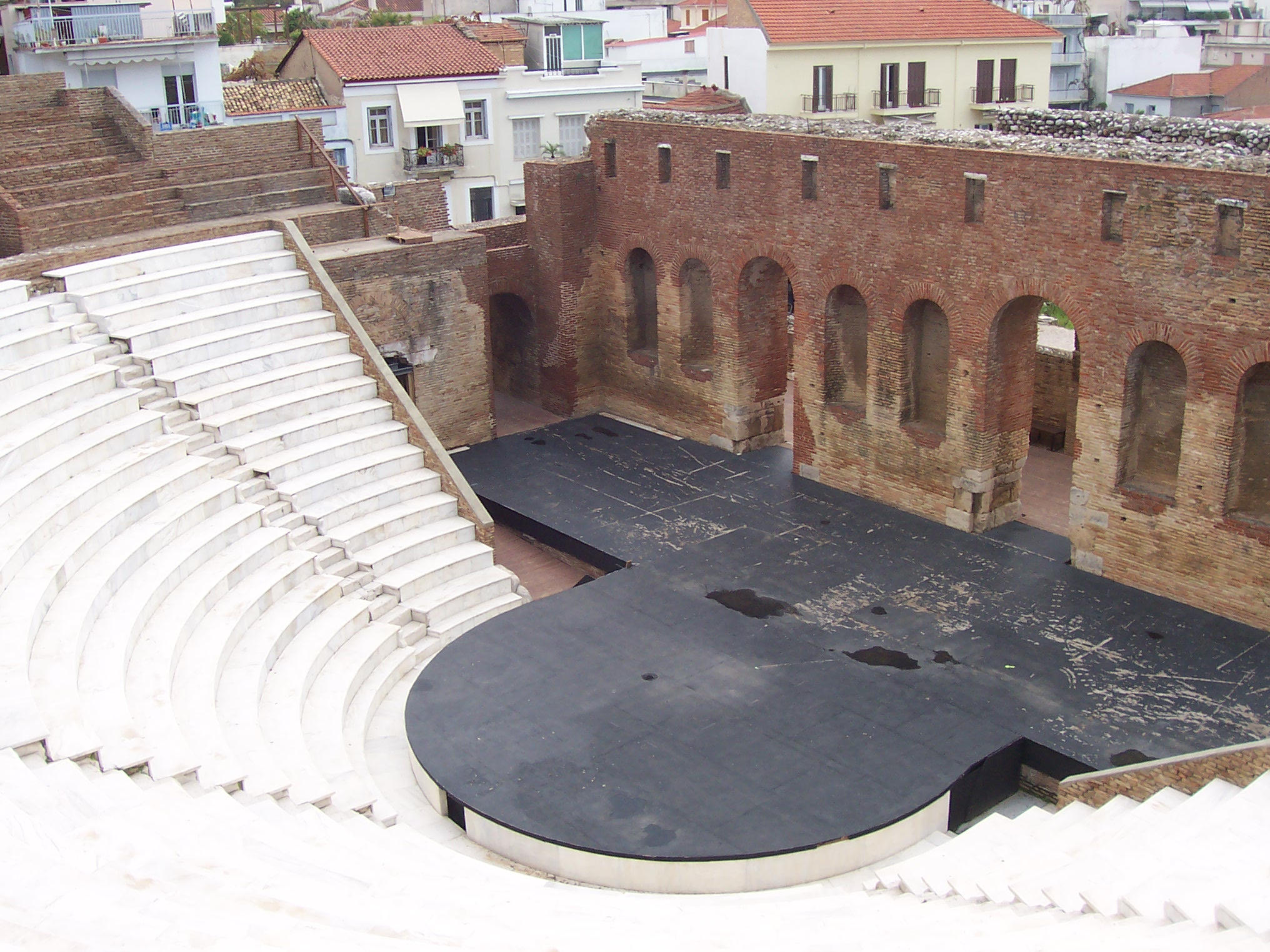 Odeion in Patras.